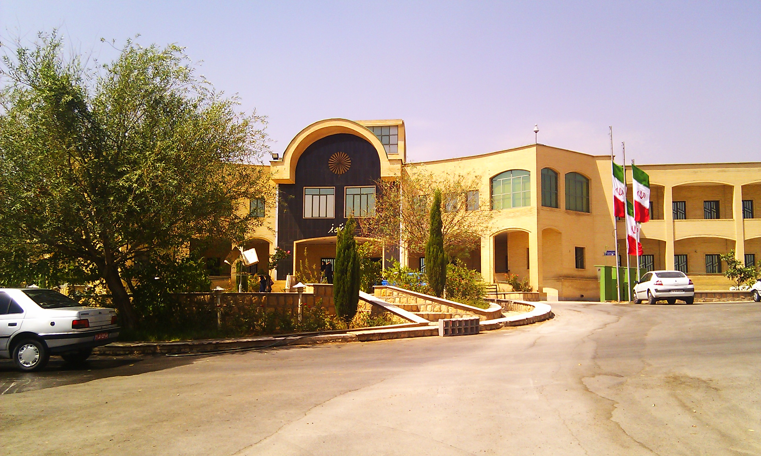 shiraz payam-e-noor university